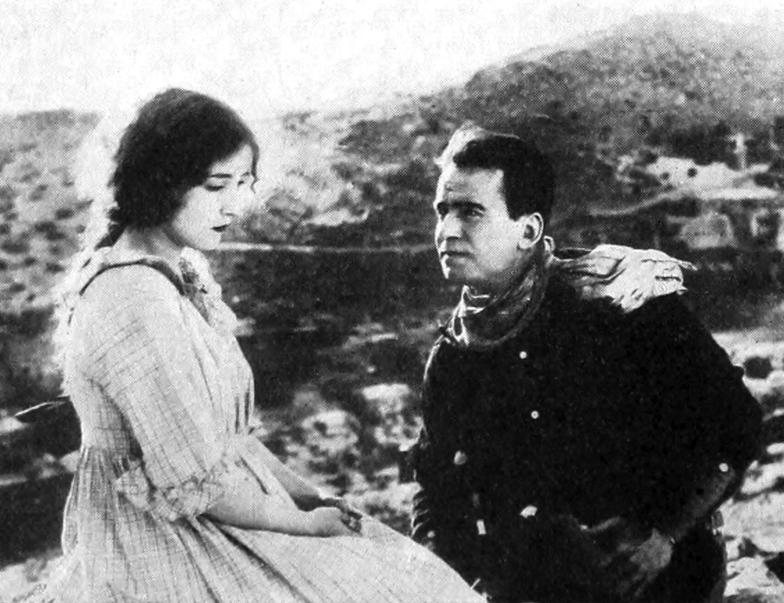 Actors Bessie Love and Douglas Fairbanks in the silent film The Good Bad-Man (1916)